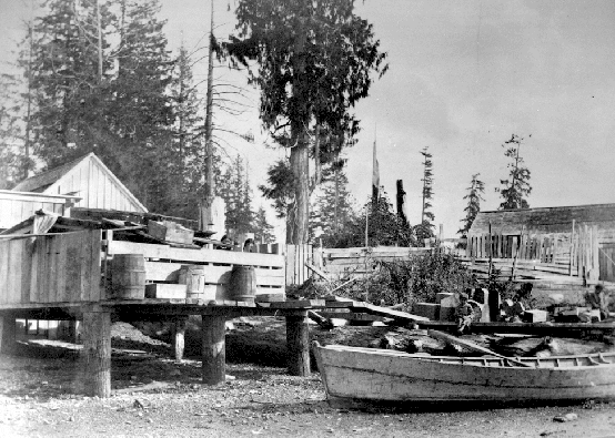 Photograph take in 1886 and from BC Archives